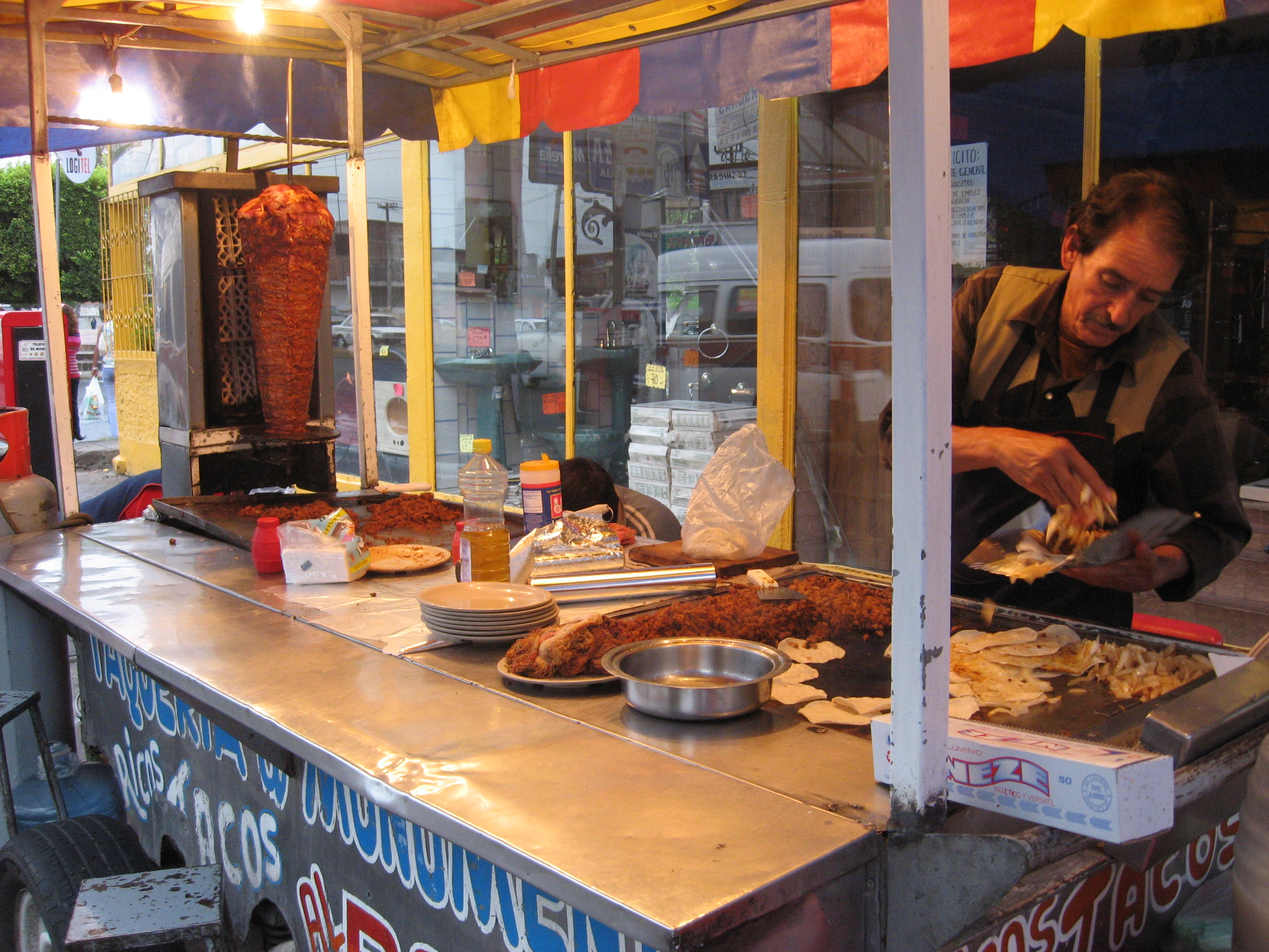 See above